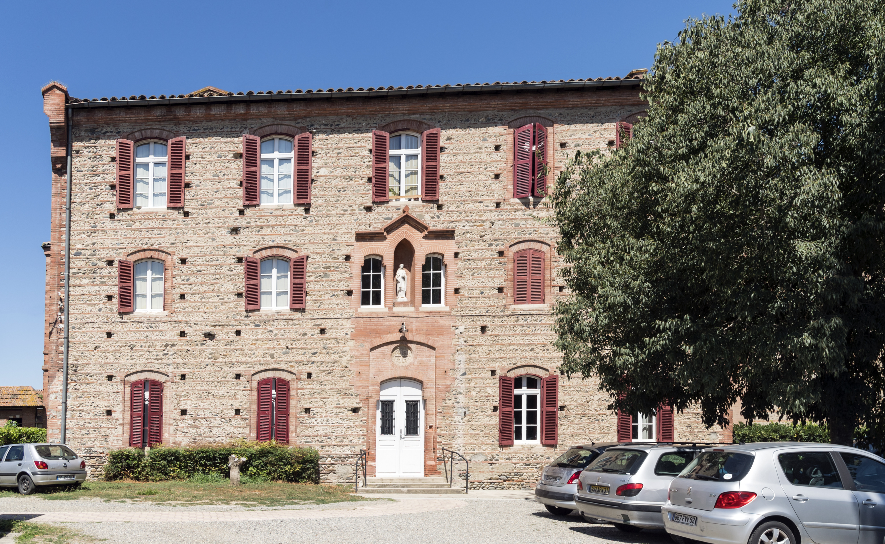 Facade of Convent of St. Catherine of Siena in Blagnac Architect: Henry Bach (1815-1899)